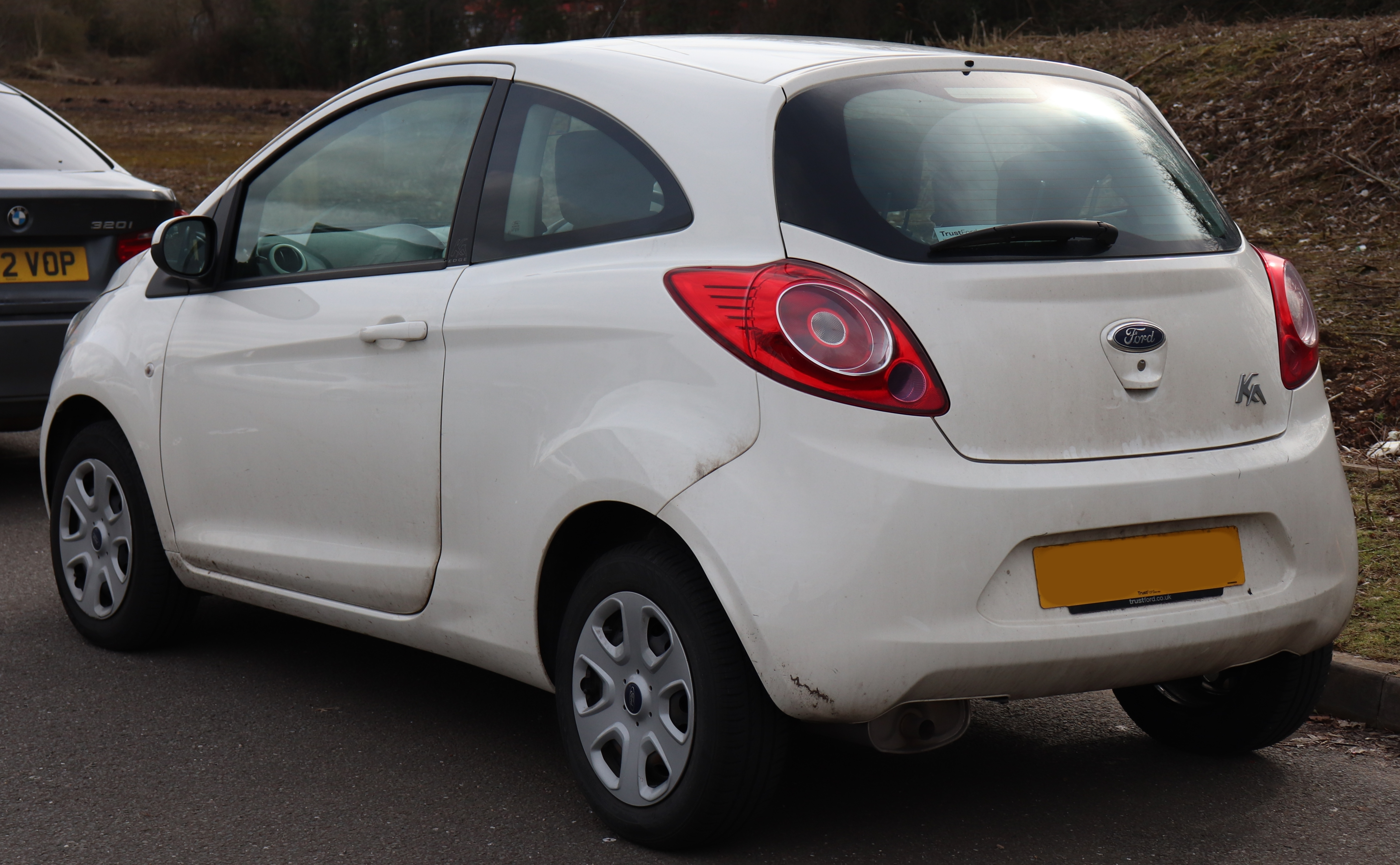 2014 Ford KA Edge 1.2 Rear Taken in Leamington Spa